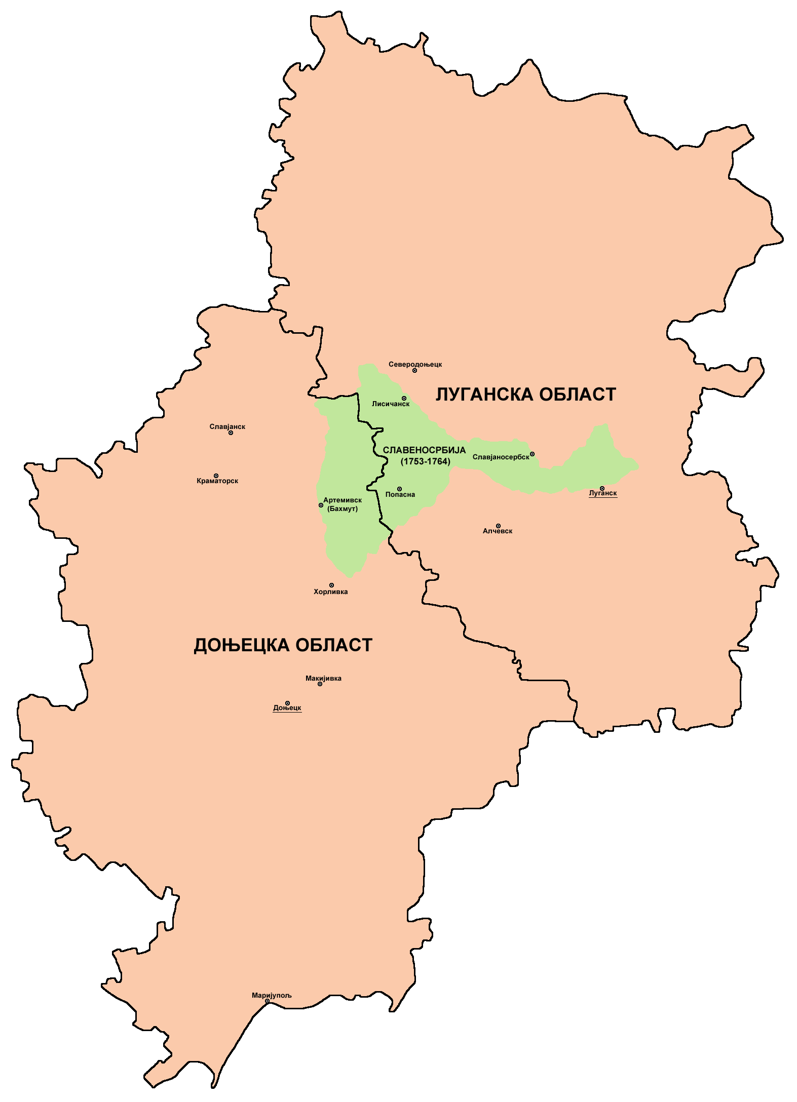 Borders of historical Slavo-Serbia (1753-1764) compared with borders of modern Luhansk Oblast and Donetsk Oblast of Ukraine.